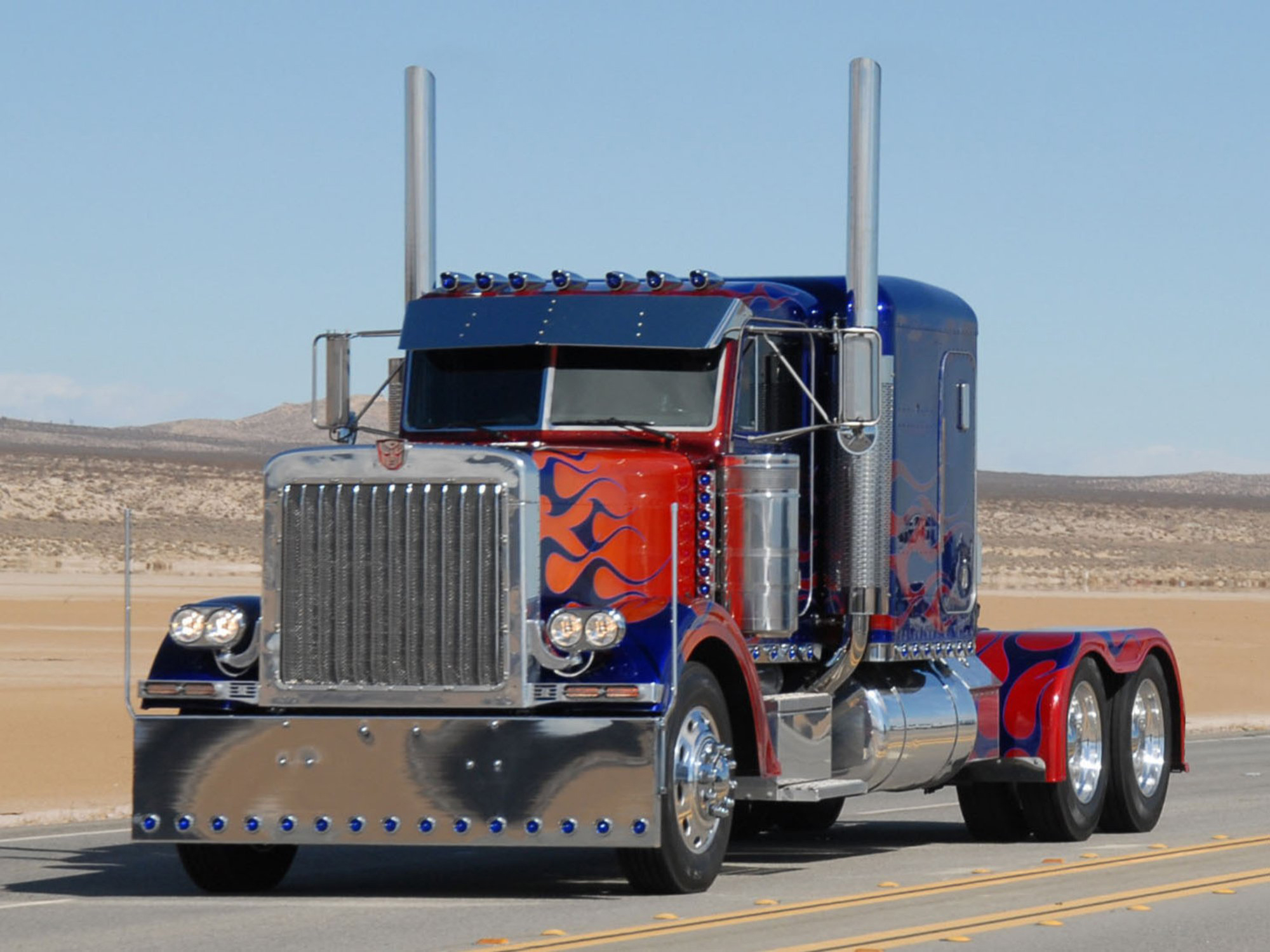 Cropped image of shooting for Transformers with the vehicle for Optimus Prime.